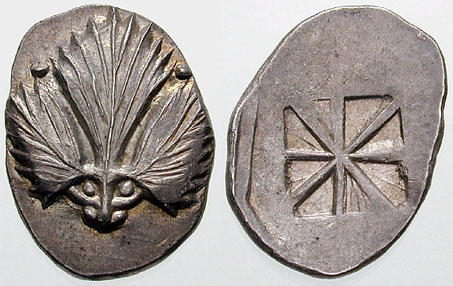 Sicily, Selinos. Circa 540/530-510 BC. AR Didrachm (9.08 gm). Selinon leaf, stem of leaf resembling a panther's scalp; two pellets above Incuse square divided into eight sections. SNG ANS 666